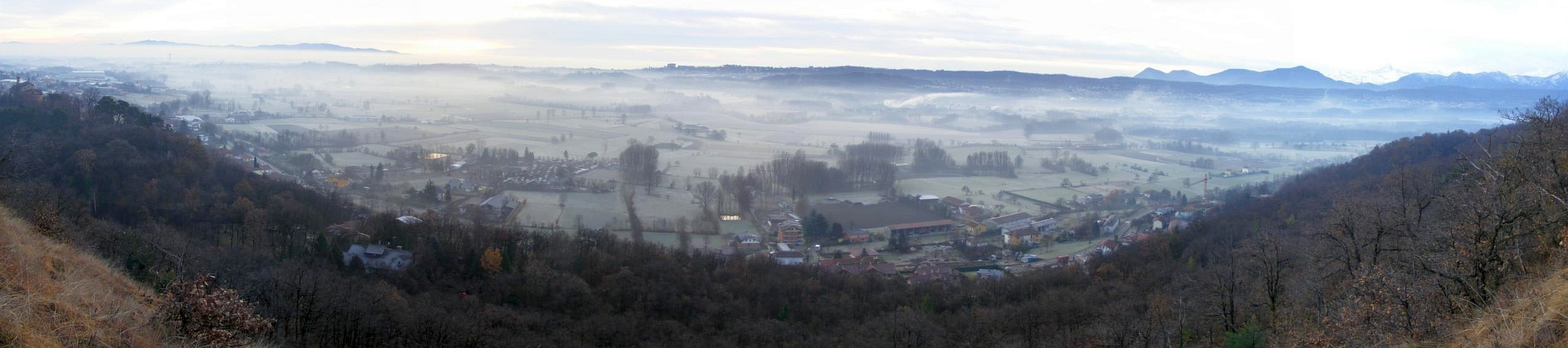 Anfiteatro di Rivoli-Avigliana (TO, Italy): right moraine as seen from mount Musinè